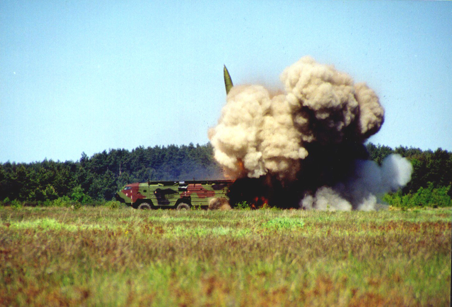 19.05.1999 - the last "Toczka" rocket fire by Polish Army.